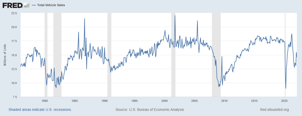 Total vehicle sales in the United States